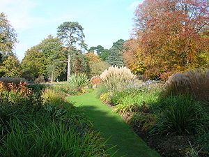 Exbury Gardens, Hampshire, England. November 2007.